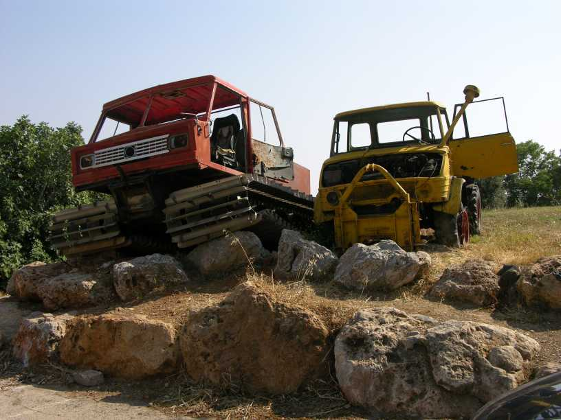 machines from the Hermon ski-resort, having seen better times